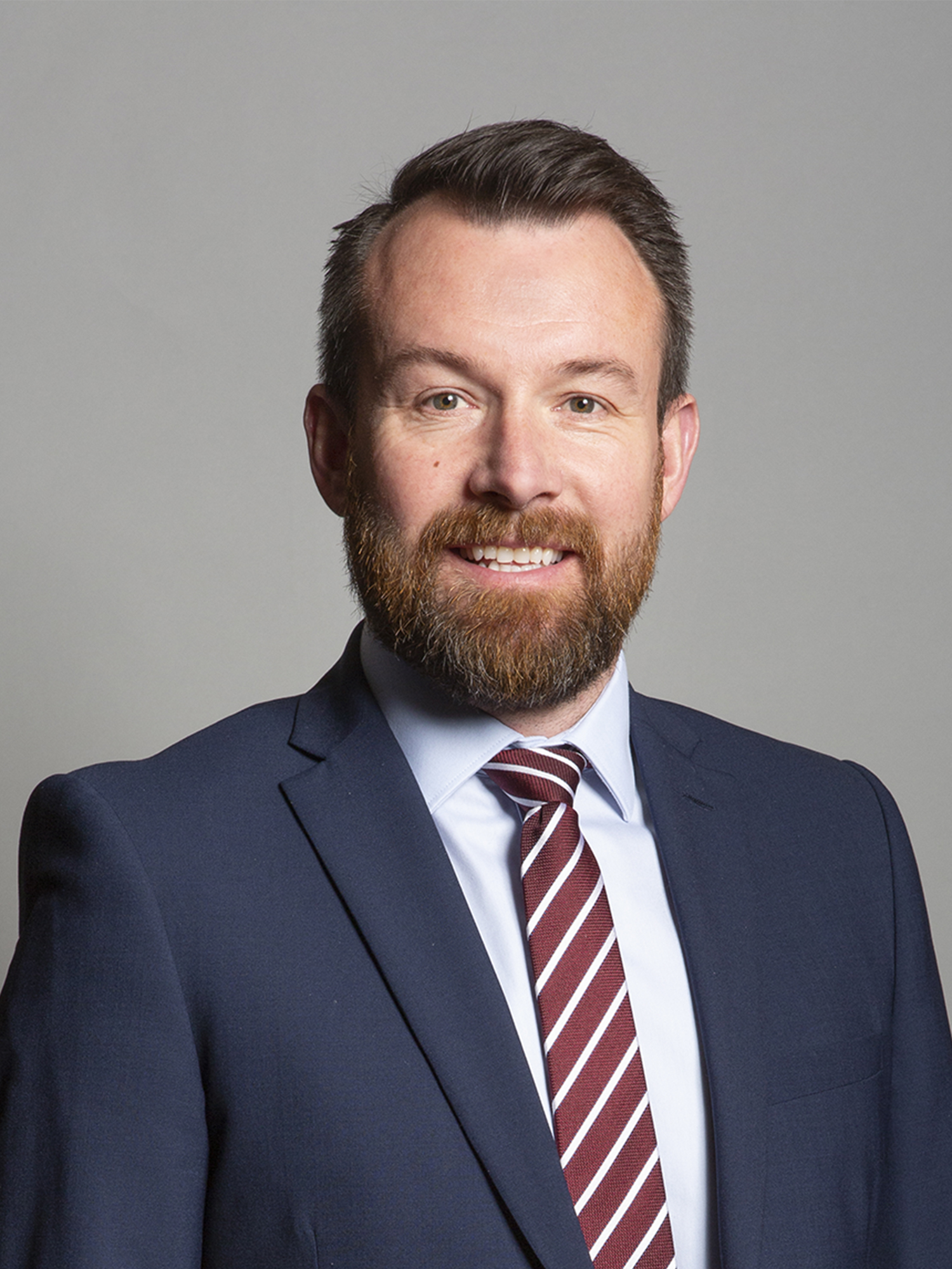 Official portrait of Stuart Anderson MP 3×4 portrait of Stuart Anderson